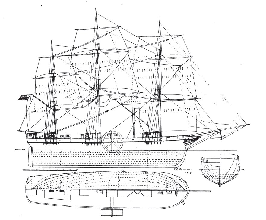 Diagram of SS Savannah according to G. B. Douglas (1919), showing lines and sail plan.